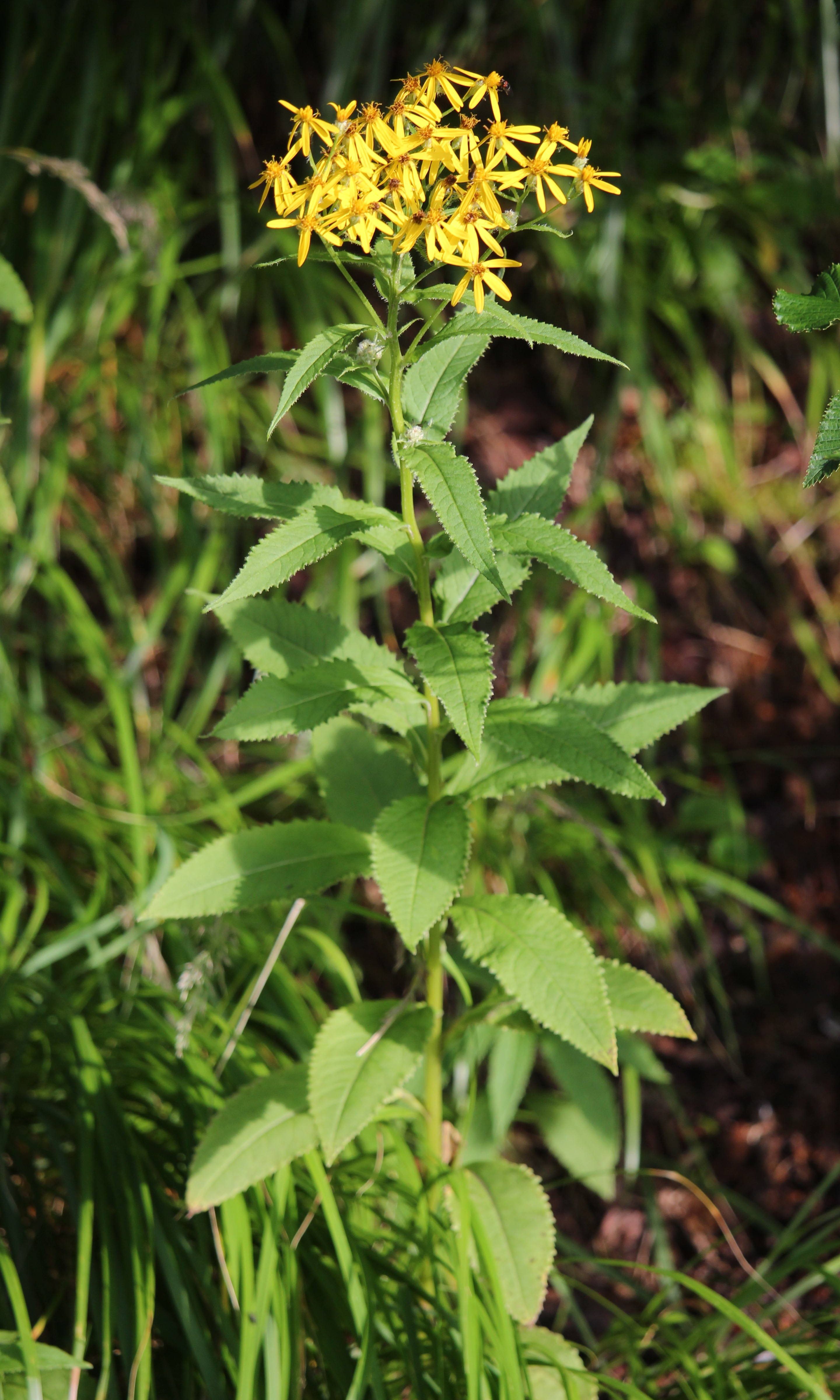 Senecio nemorensis, in Mount Ontake, Ōtaki, Nagano prefecture, Japan.